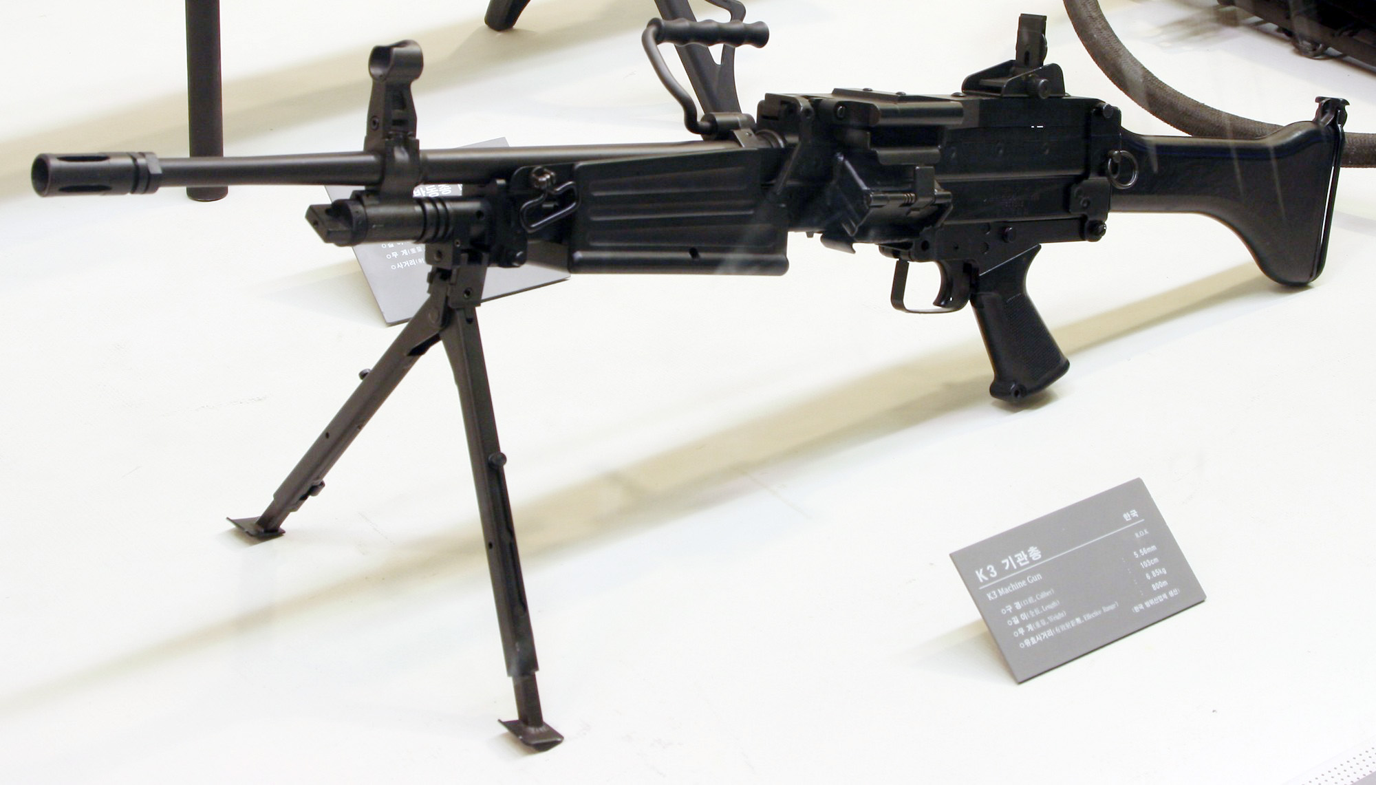 Daewoo K3 machine gun at the War Memorial of Korea